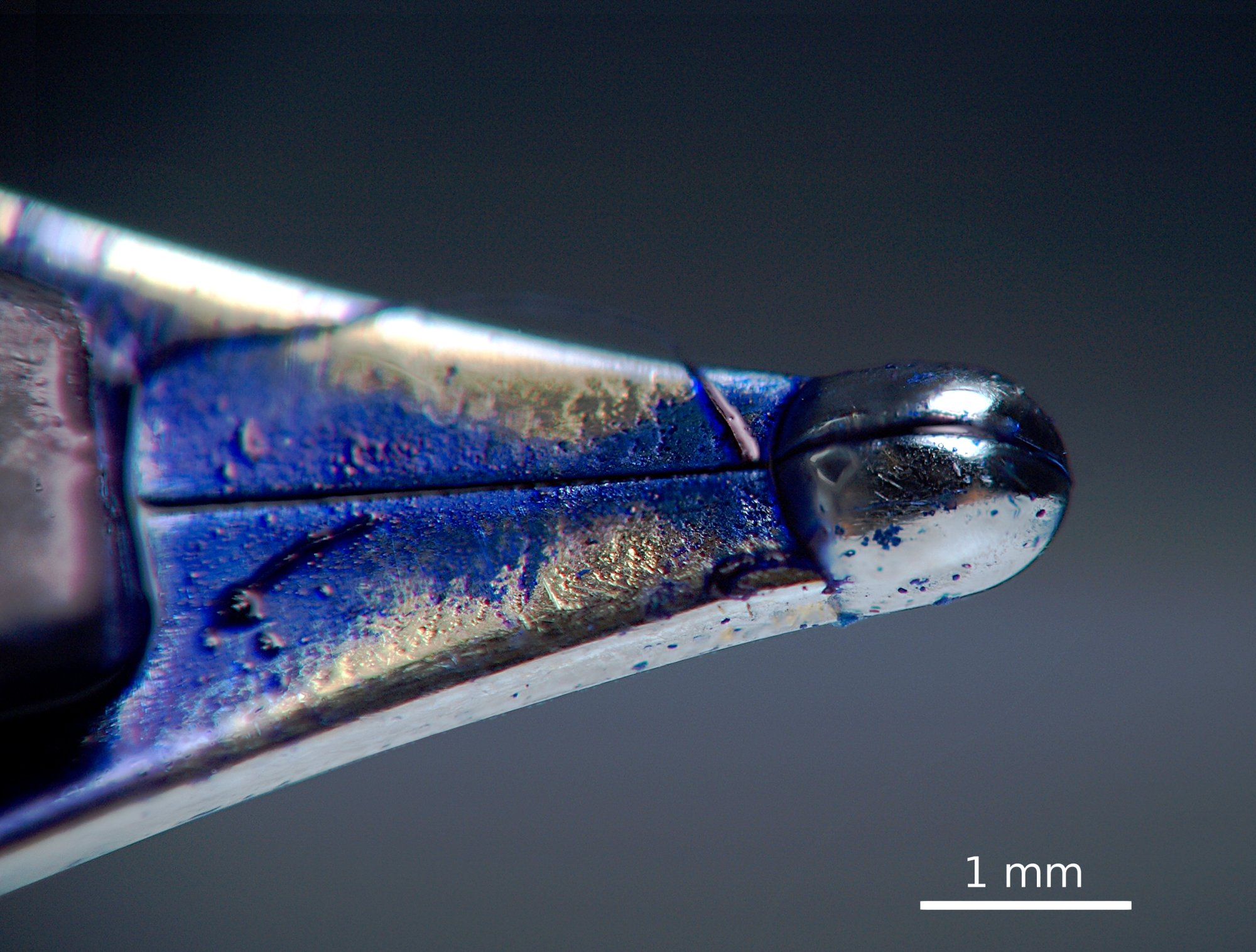 Tip of a fountain pen